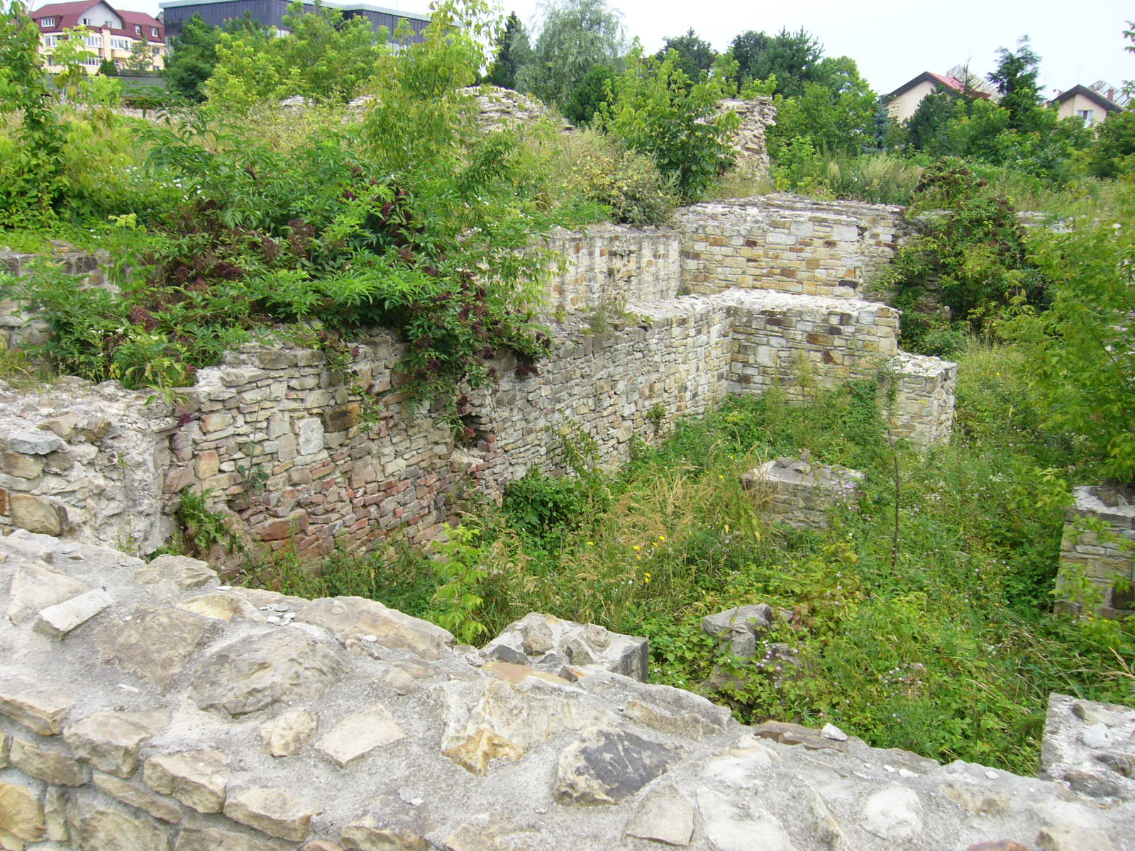 The Princely Court in Suceava.